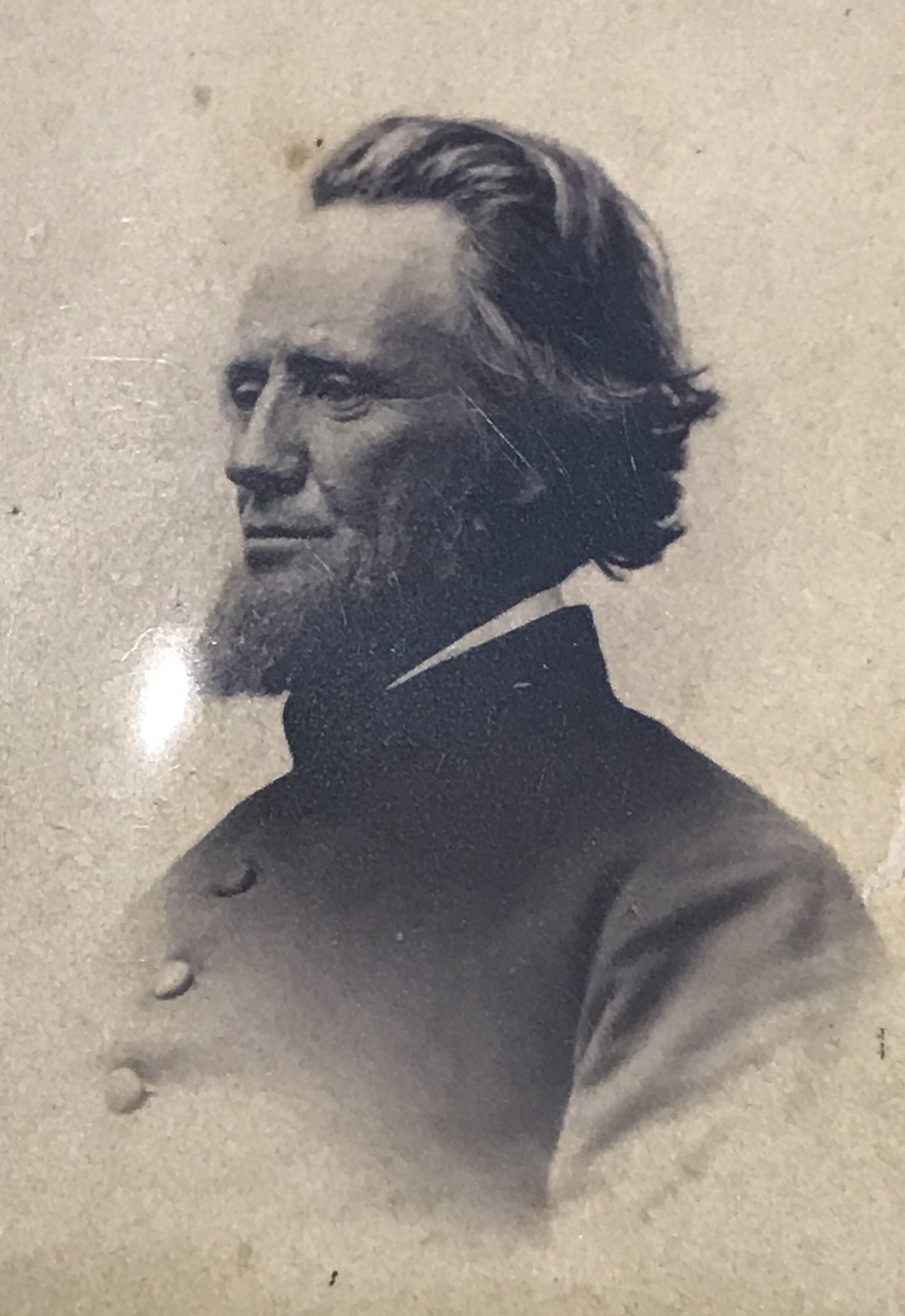 Photograph of American educator and abolitionist Frederick W. Gunn, who founded The Gunnery, a school in Washington, Connecticut, in 1850